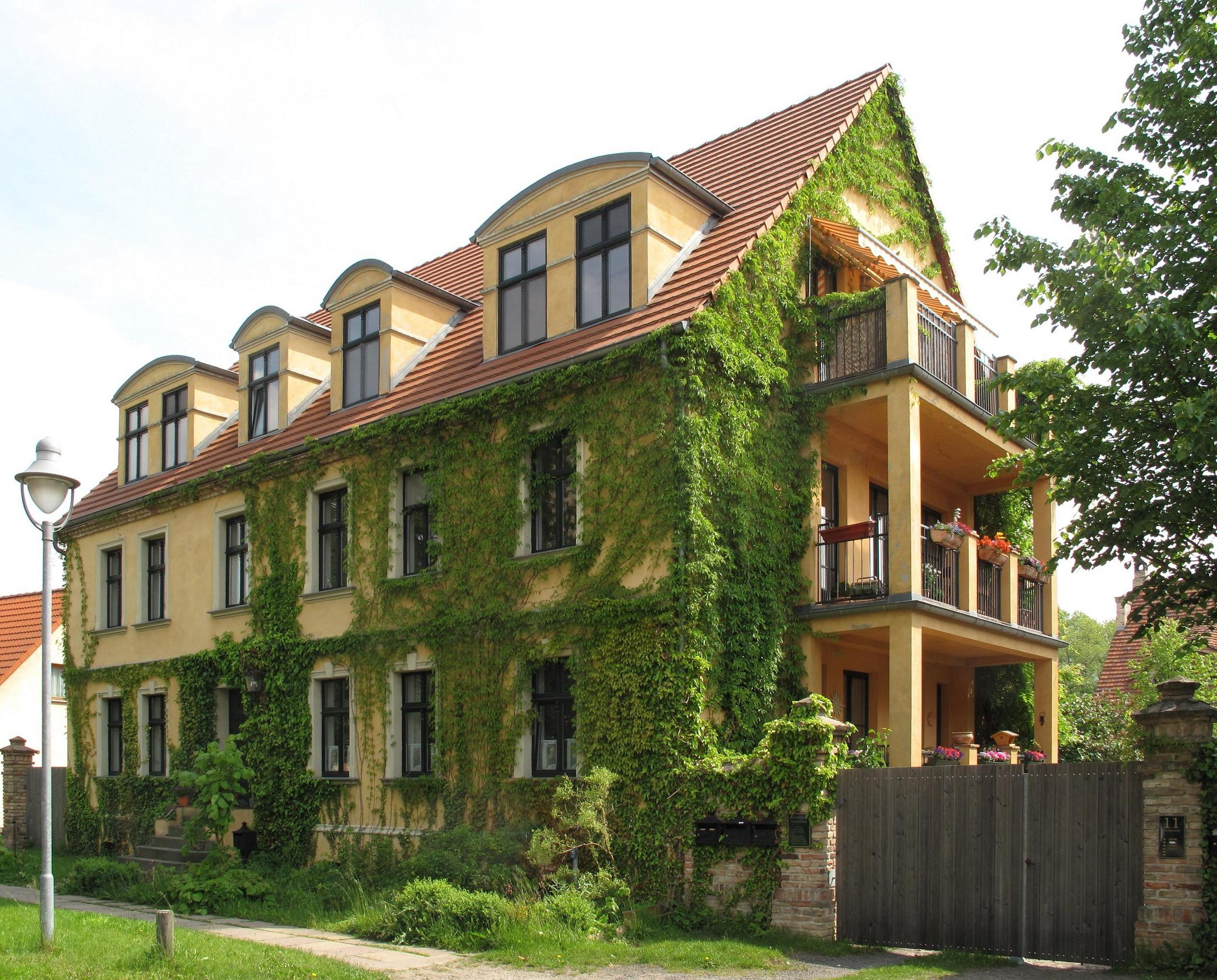 Historic village centre of Wildenbruch, restored farmhouse (former etstate) in the Dorfstraße 11 (german for: village street). Wildenbruch is a part of Michendorf in the district Potsdam-Mittelmark, state Brandenburg, Germany.